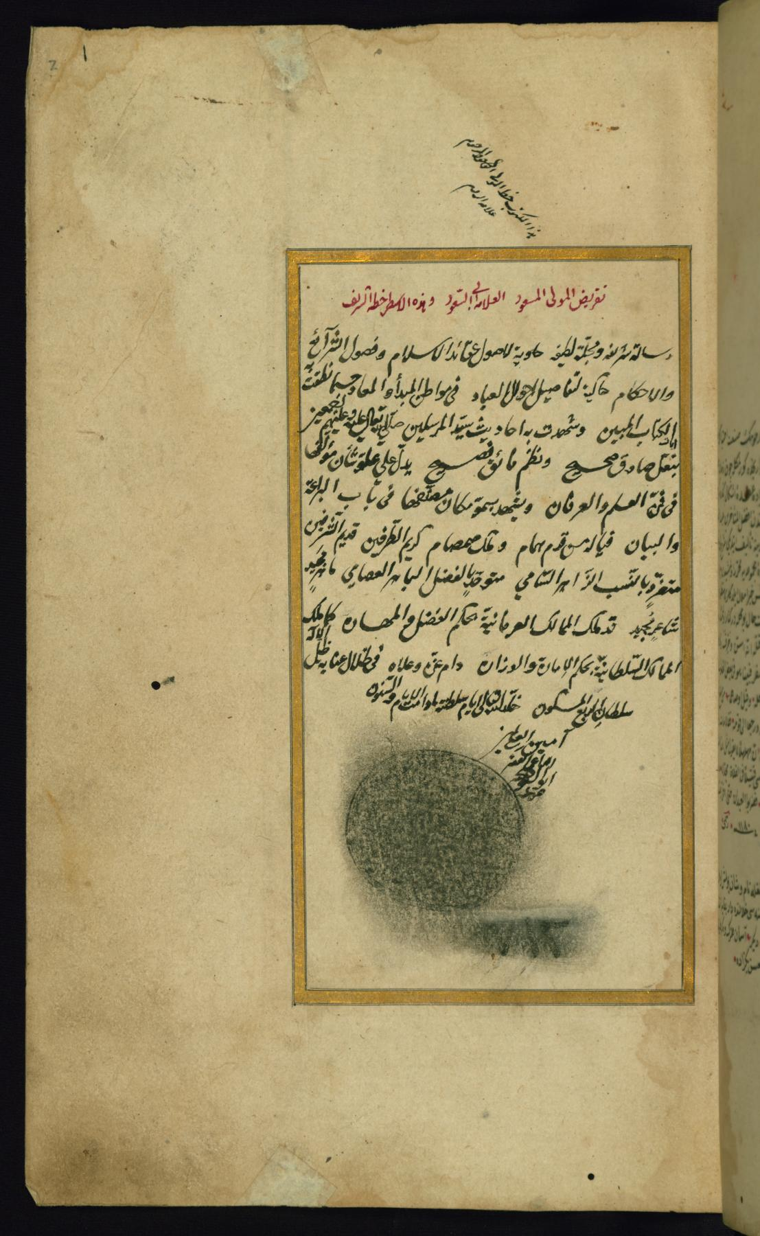 On this page from Walters manuscript W.665 is an approbation (recommendation) note in Arabic in the hand of Abu al-Su'ud Muhammad, the famous Ottoman jurist (died 982 AH/AD 1574).